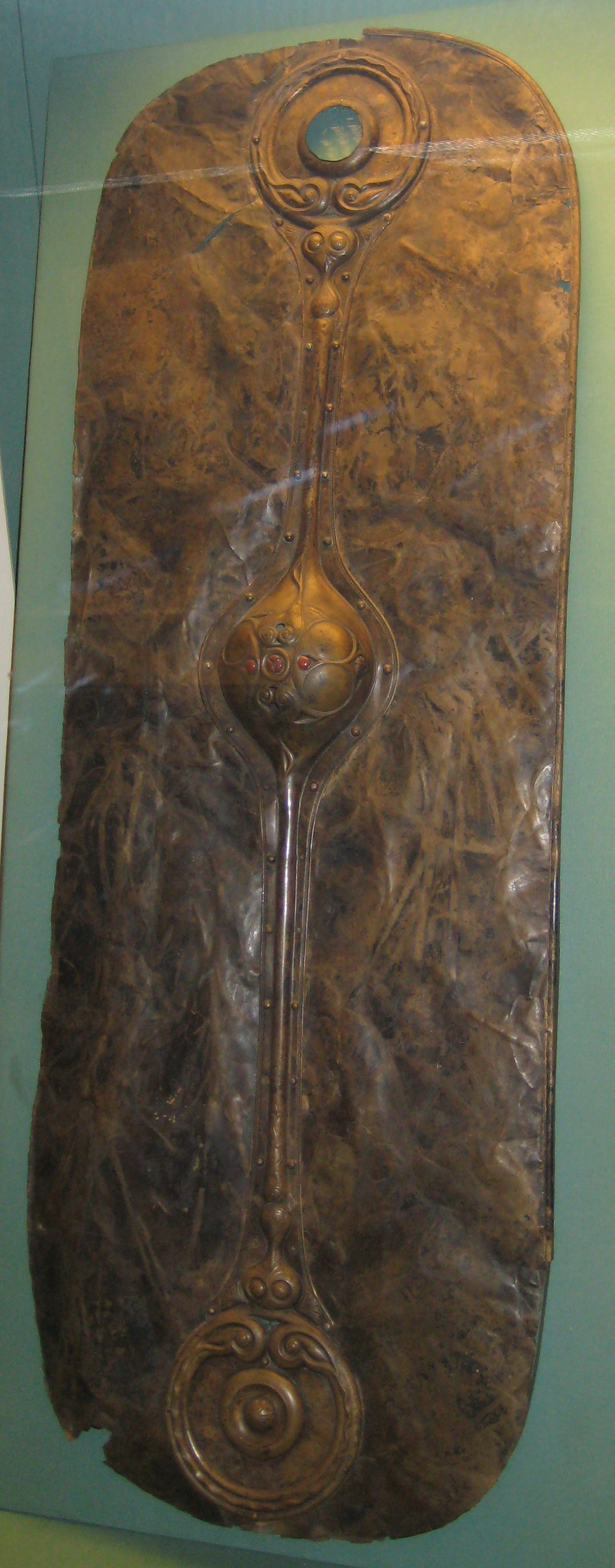 Witham Shield, Iron Age, La Tène culture, 400BC - 300BC.